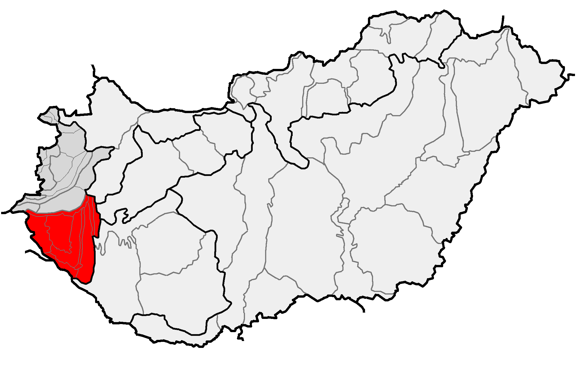 Location of geographical mesoregion of Zalai-dombság (red) and macroregion of Nyugat-magyarországi peremvidék (gray) within subdivisions of Hungary.